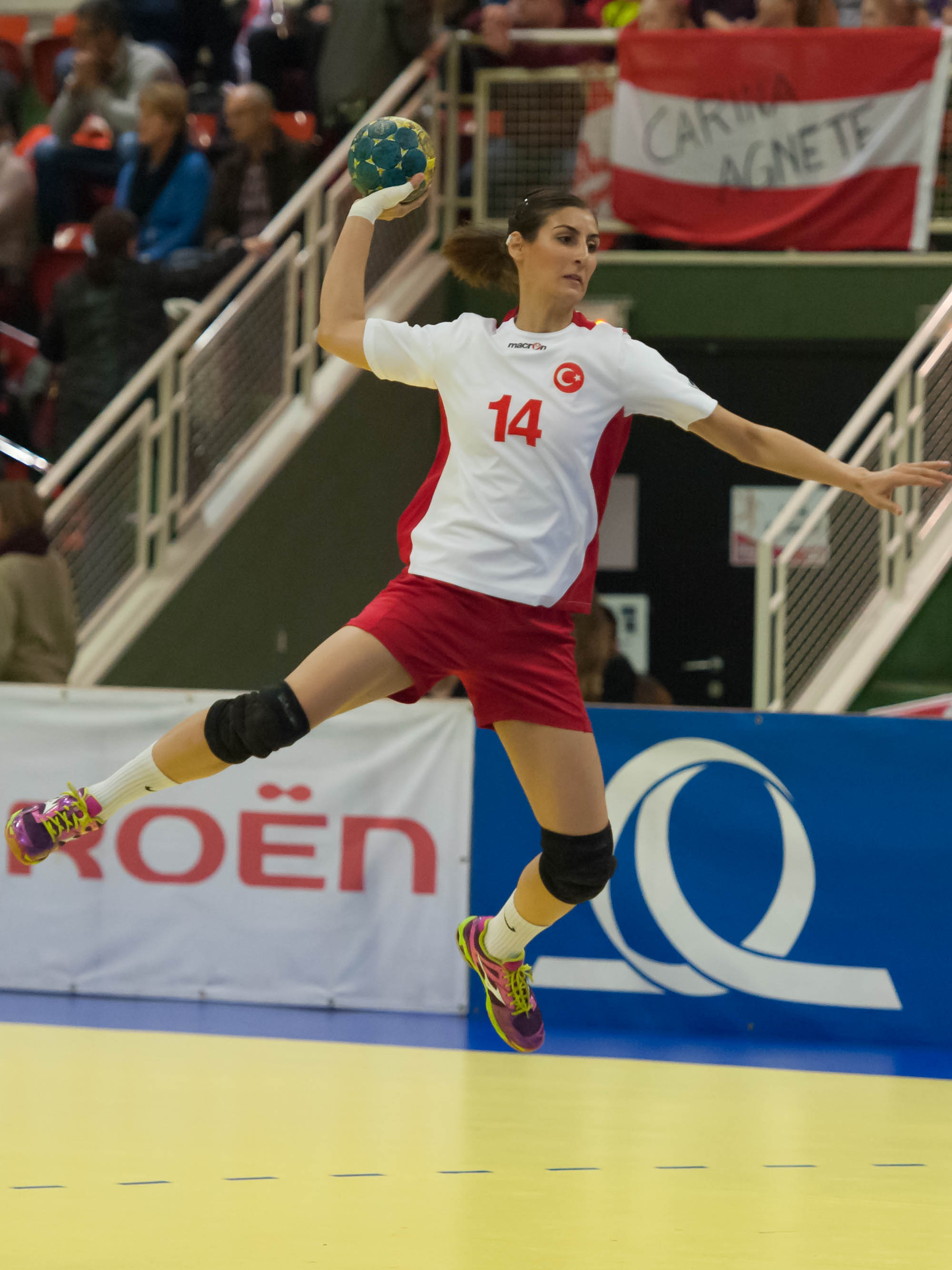 2015 World Women's Handball Championship Qualification 2014-12-06 (warmup): Nurceren Akgün